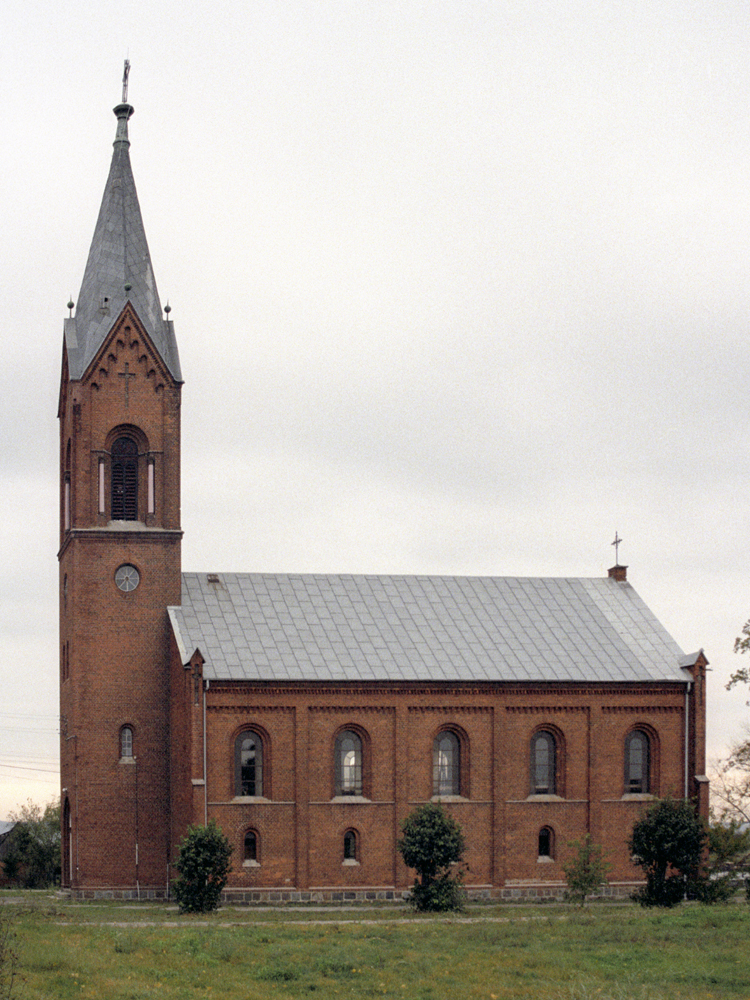 Our Lady Queen of Poland church in Zacharzyn, Poland Die Kirche von Zacharzyn (alter deutscher Name: Zachasberg) in Polen, aufgenommen im Herbst 2000 als Diapositiv. Scan und Nachbearbeitung mit Photoshop 2.0.